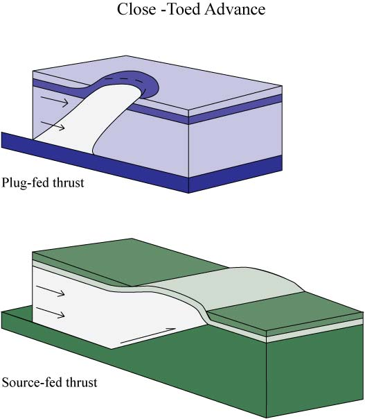 Illustration of close-toed advance